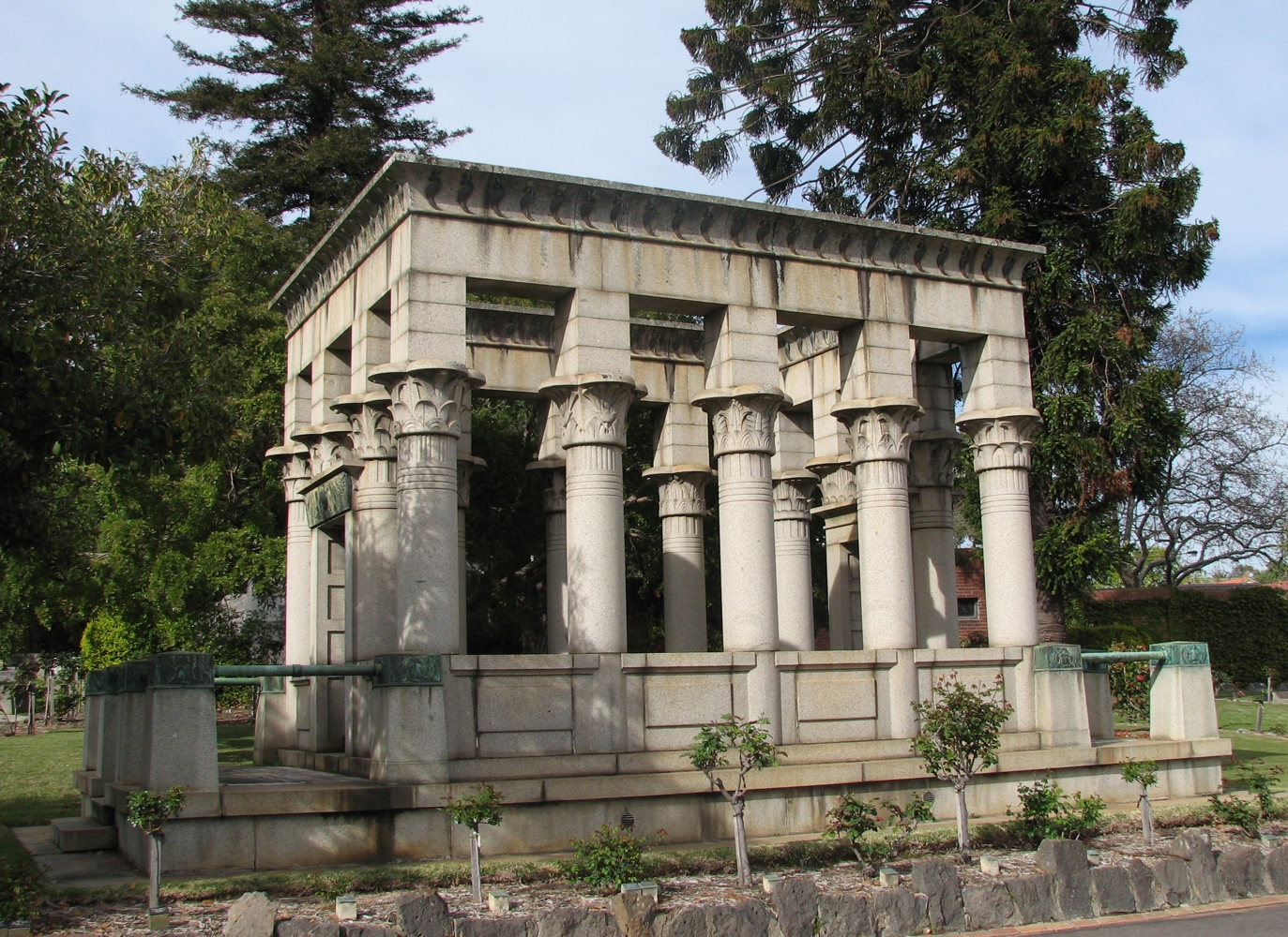 Syme Memorial, Boroondara General Cemetery, Kew, Victoria, Australia.